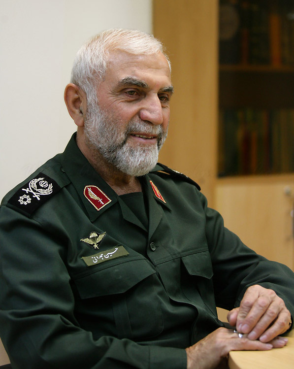 Brigadier general Hossein Hamedani, Iranian KIA commander in Syrian Civil War.